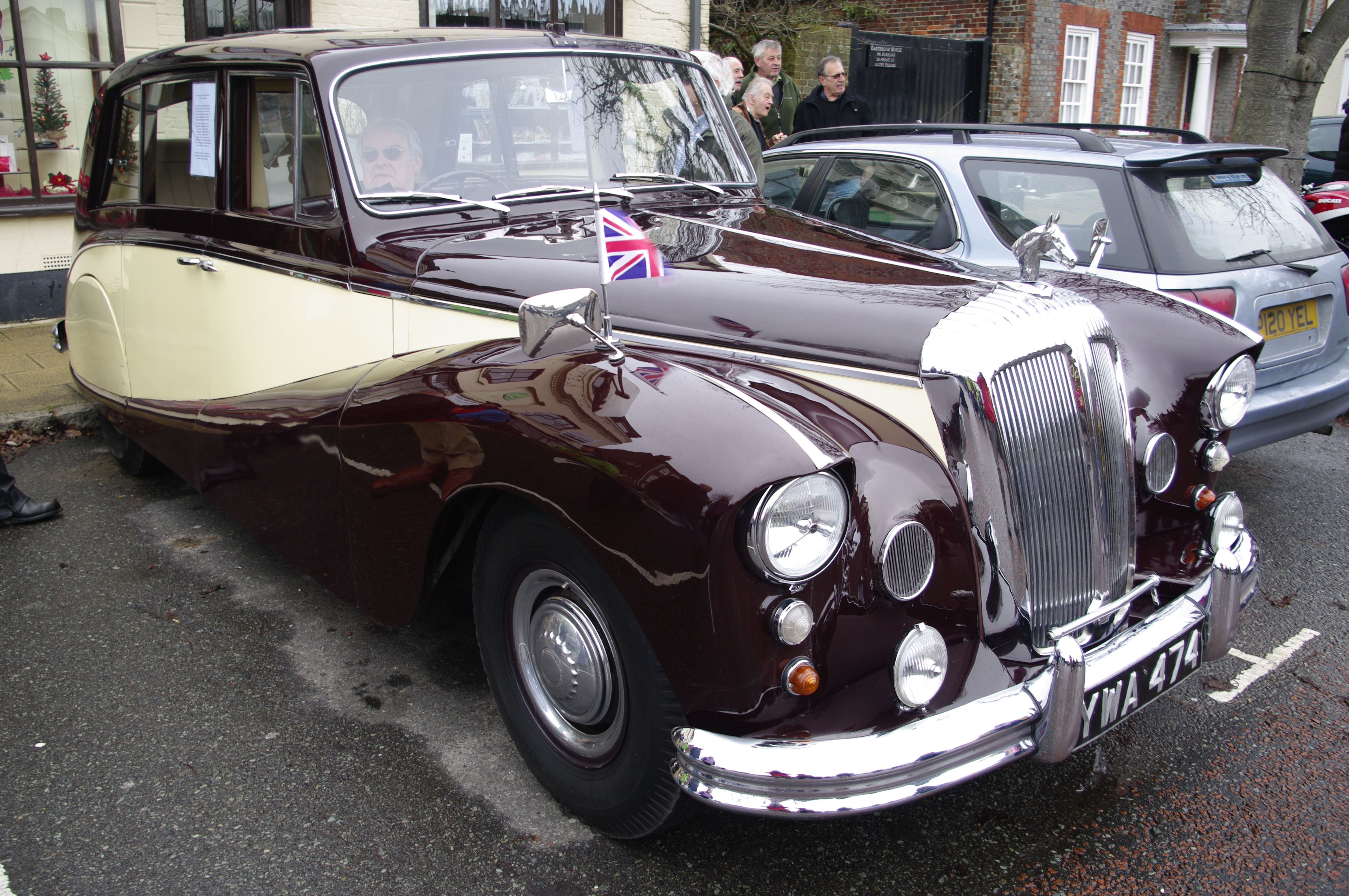 1957 Daimler limousine (DK400) with 4.6 litre six-cylinder engine, body by Hooper